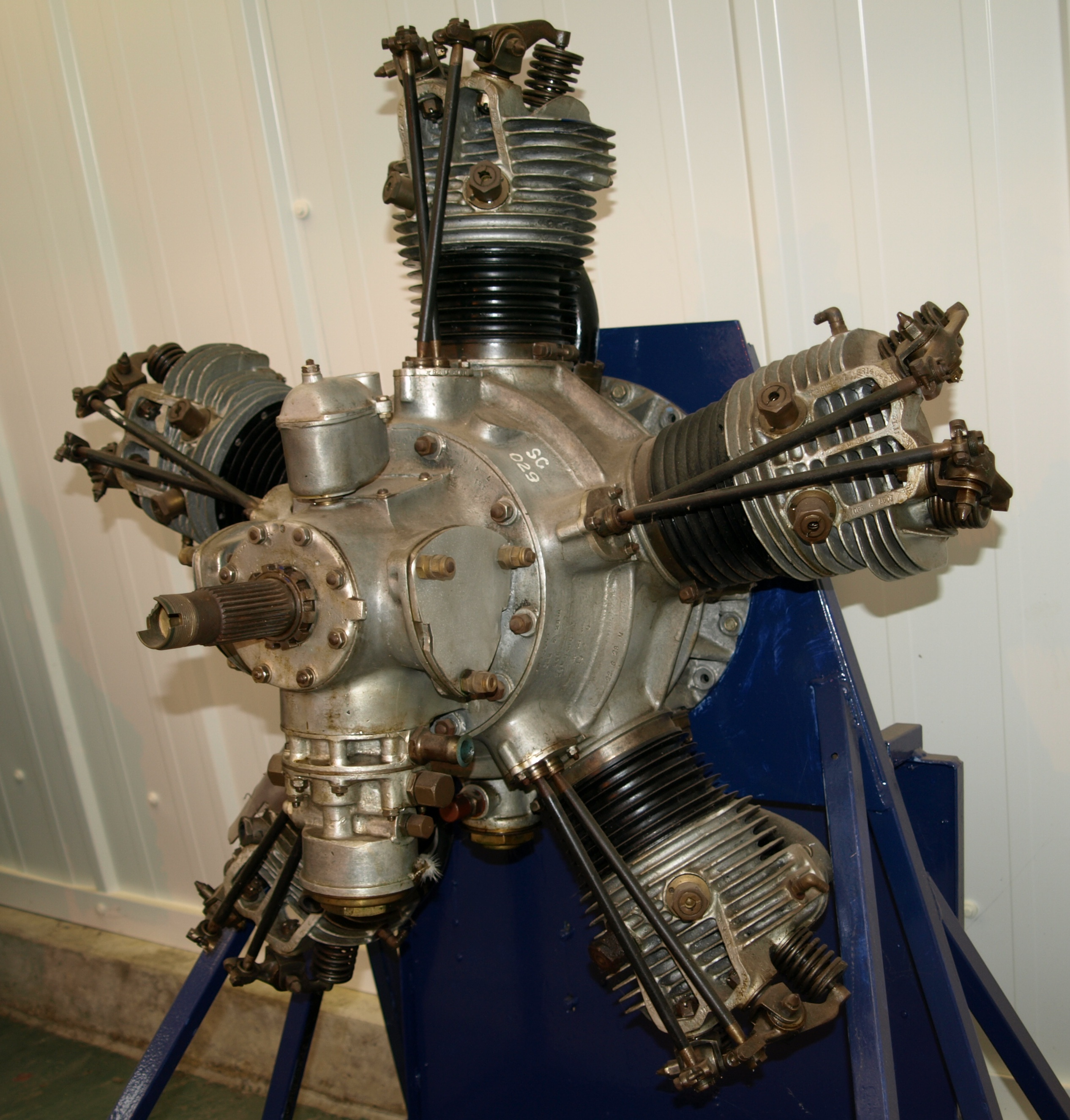 Armstrong Siddeley Genet aero engine